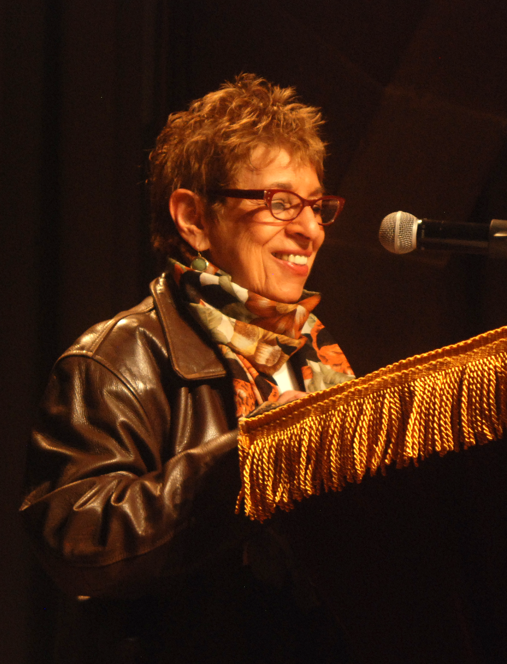 Hettie reading at Cooper Union